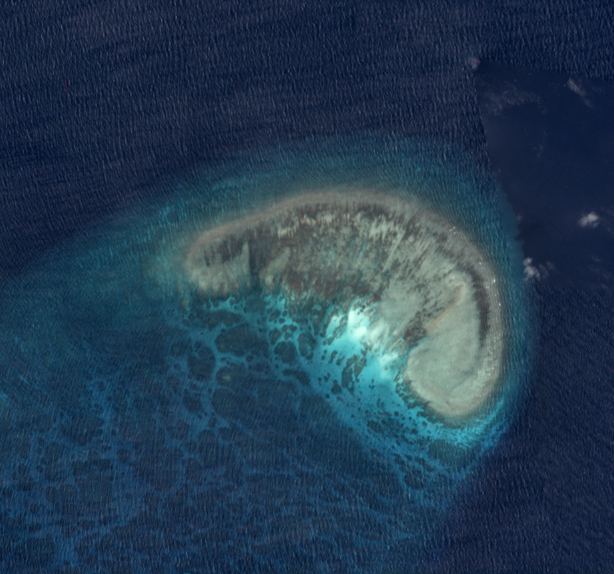 Menzies Reef is a coral reef of Spratly Islands.